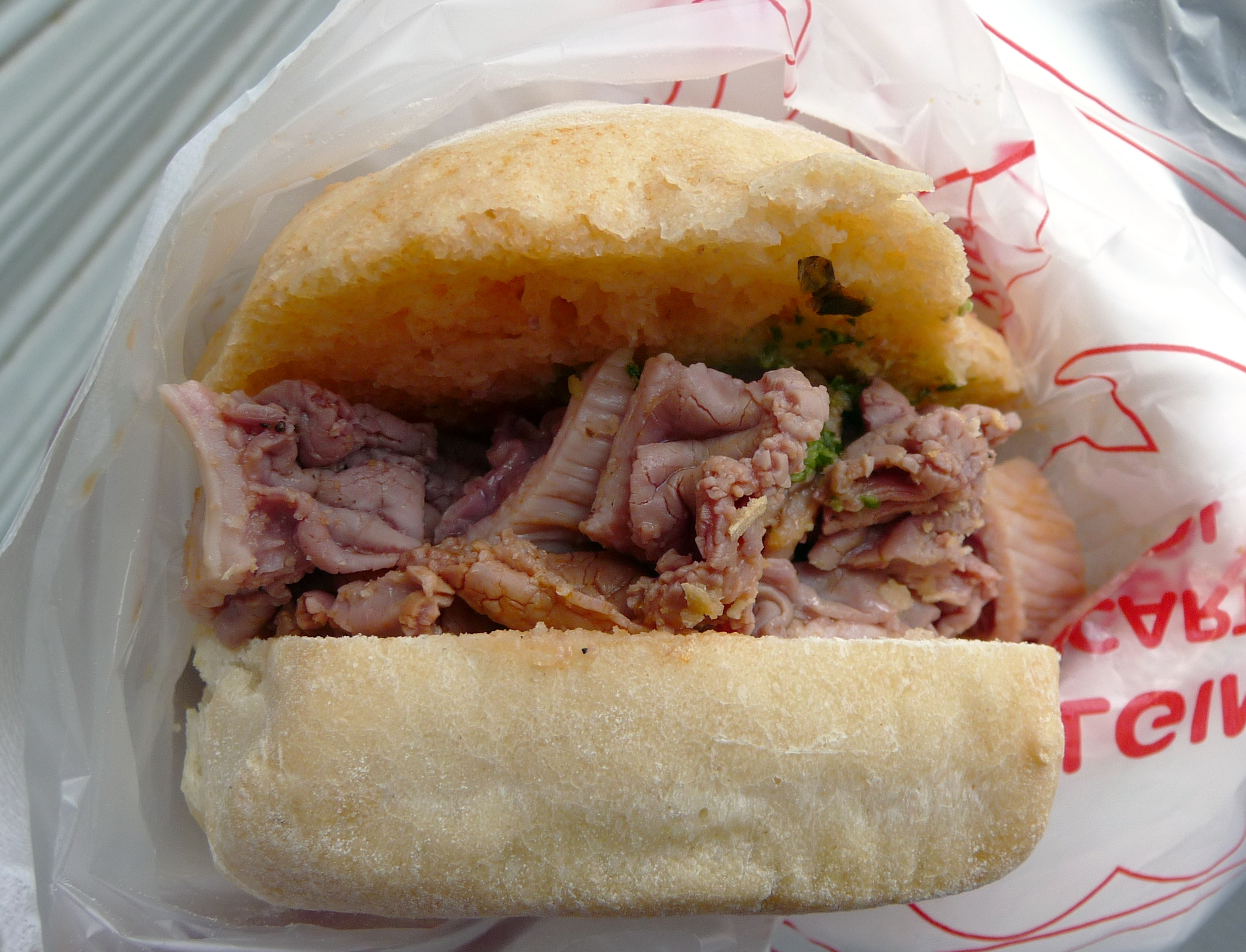 Lampredotto sandwich, Florence, Italy